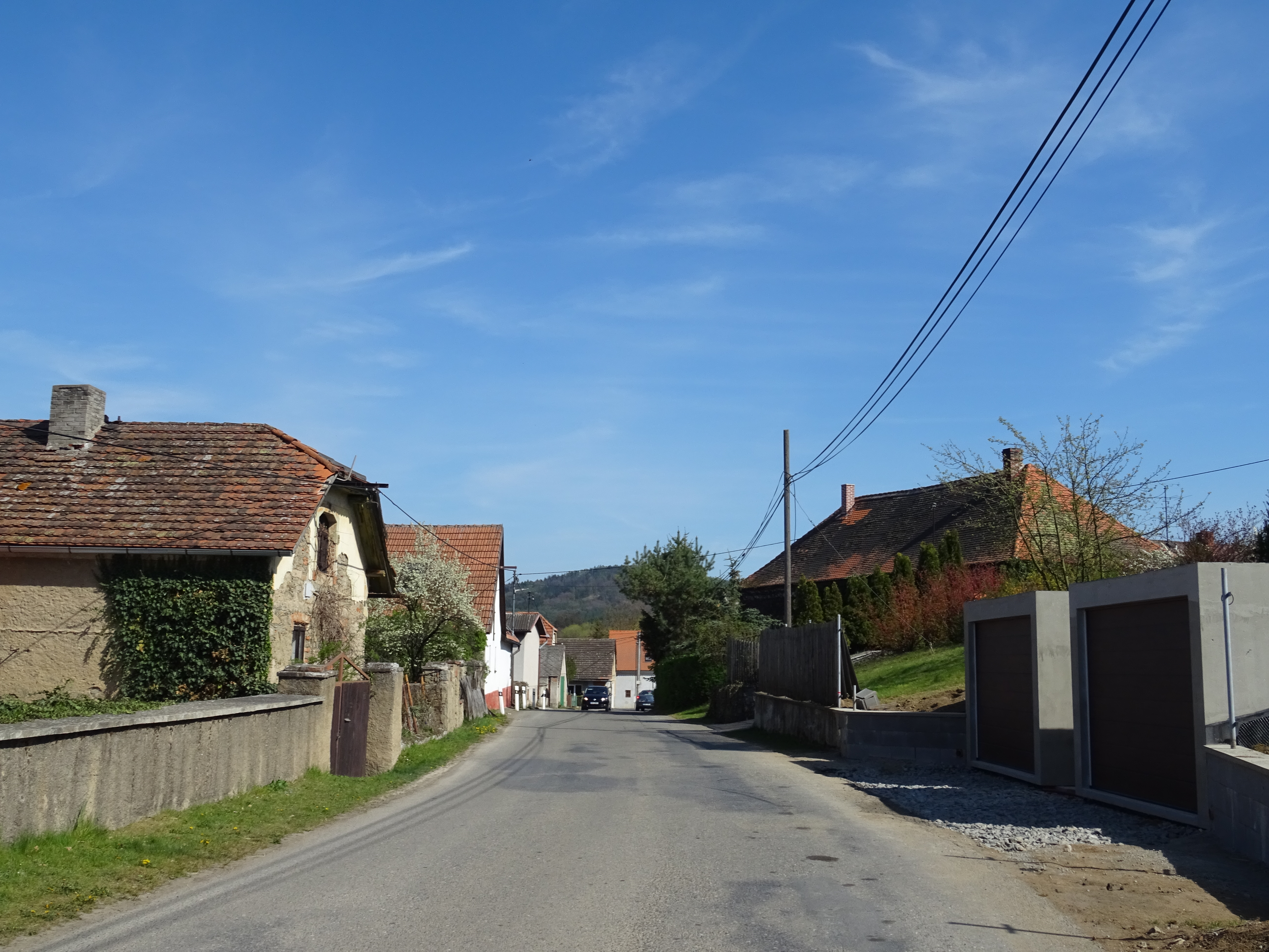 This photograph was created as a part of Wikiexpedition Mladá Vožice, a project supported by Wikimedia Foundation grant.